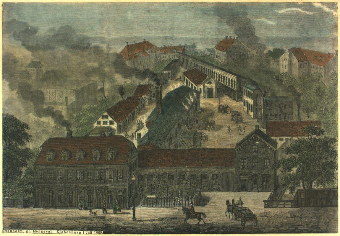 The Svanholm Iron Foundry at Gammel Kongevej 53-55 in Frederiksberg, Copenhagen, Denmark